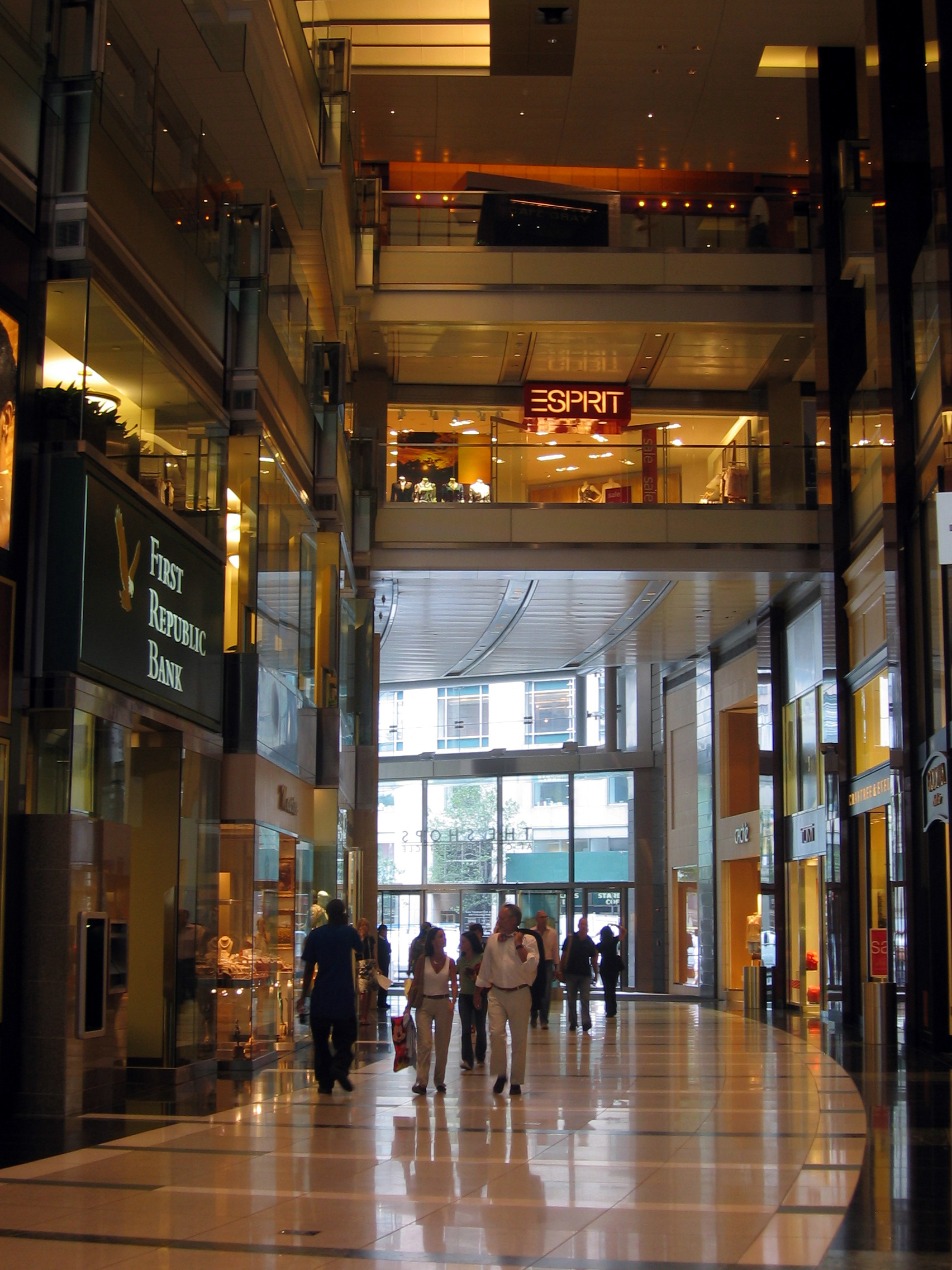 Shops at Columbus Circle, in New York City's Time Warner Center. Photo by User:Kmf164